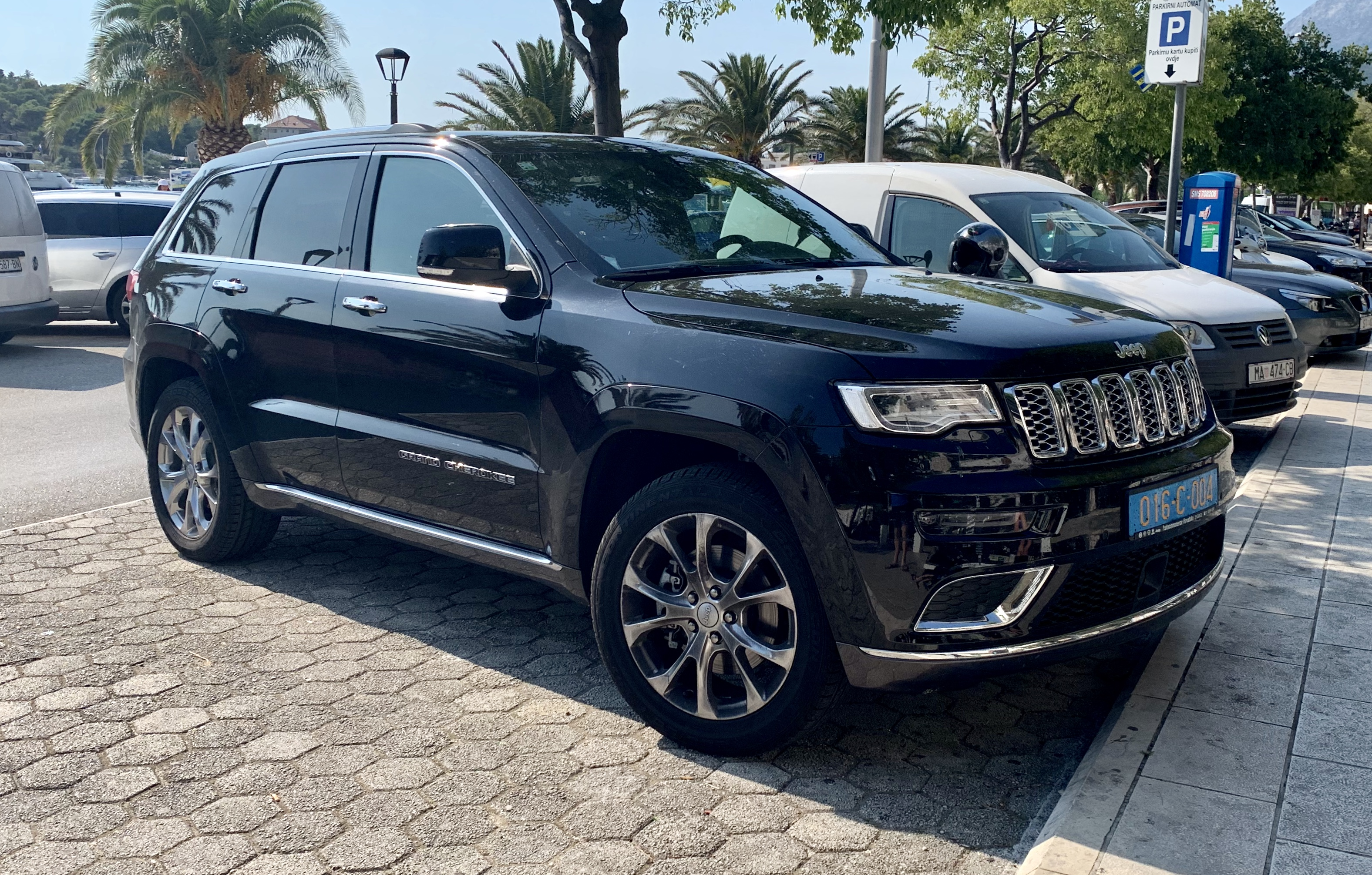 2017 Jeep Grand Cherokee in Makarska, Croatia